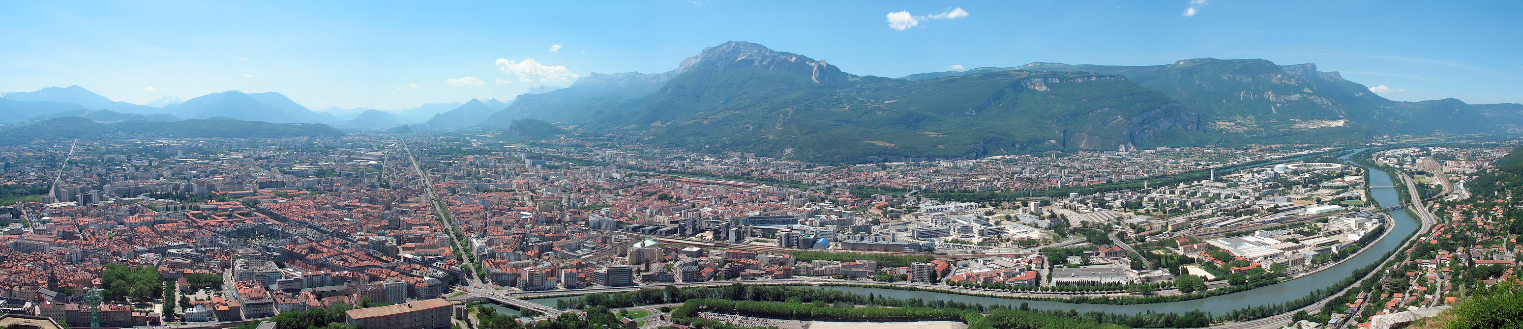 Panorama view over Grenoble, Isère departement, France.